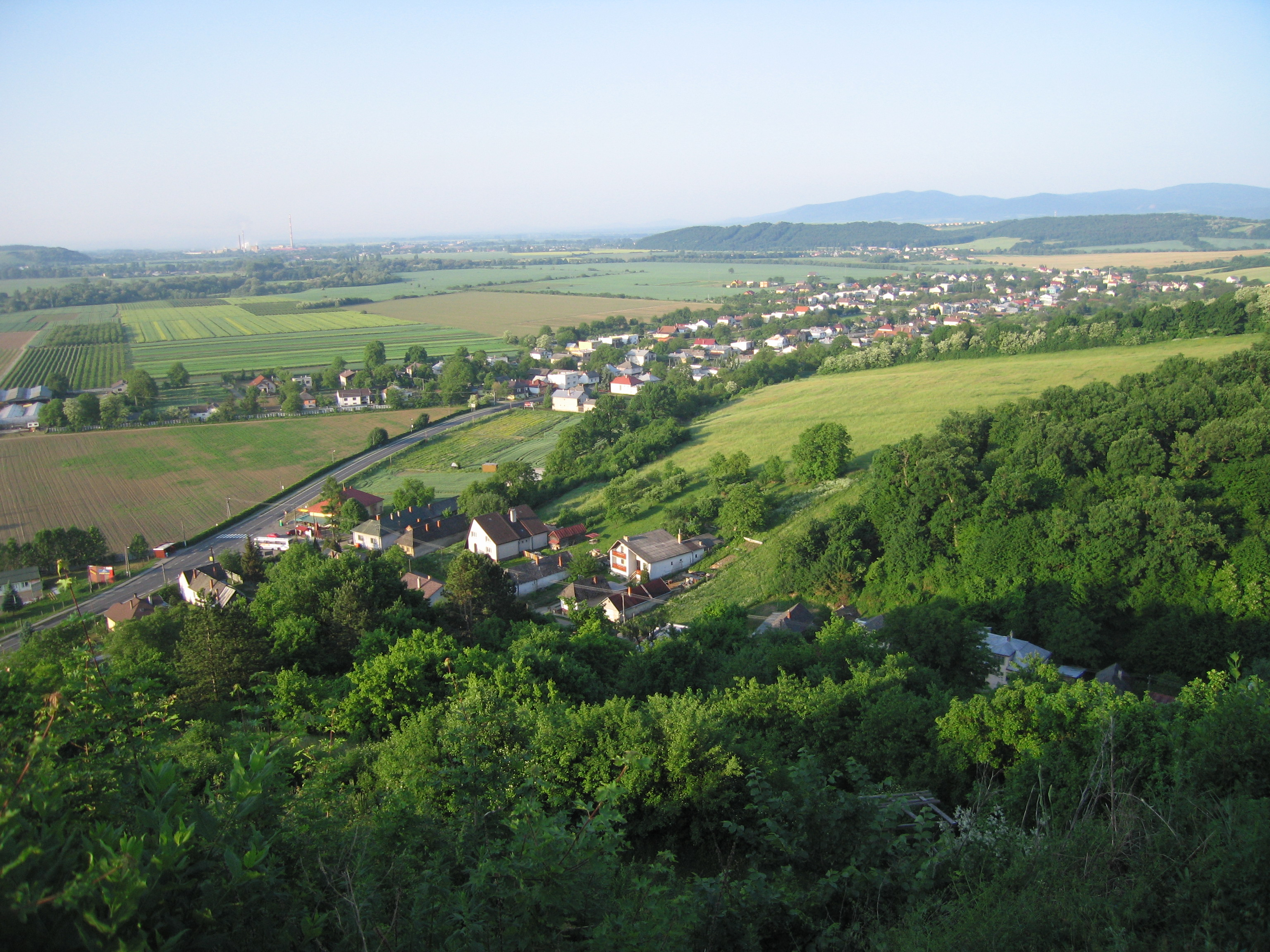 Sedliská, Vranov nad Topľou District, Slovakia.